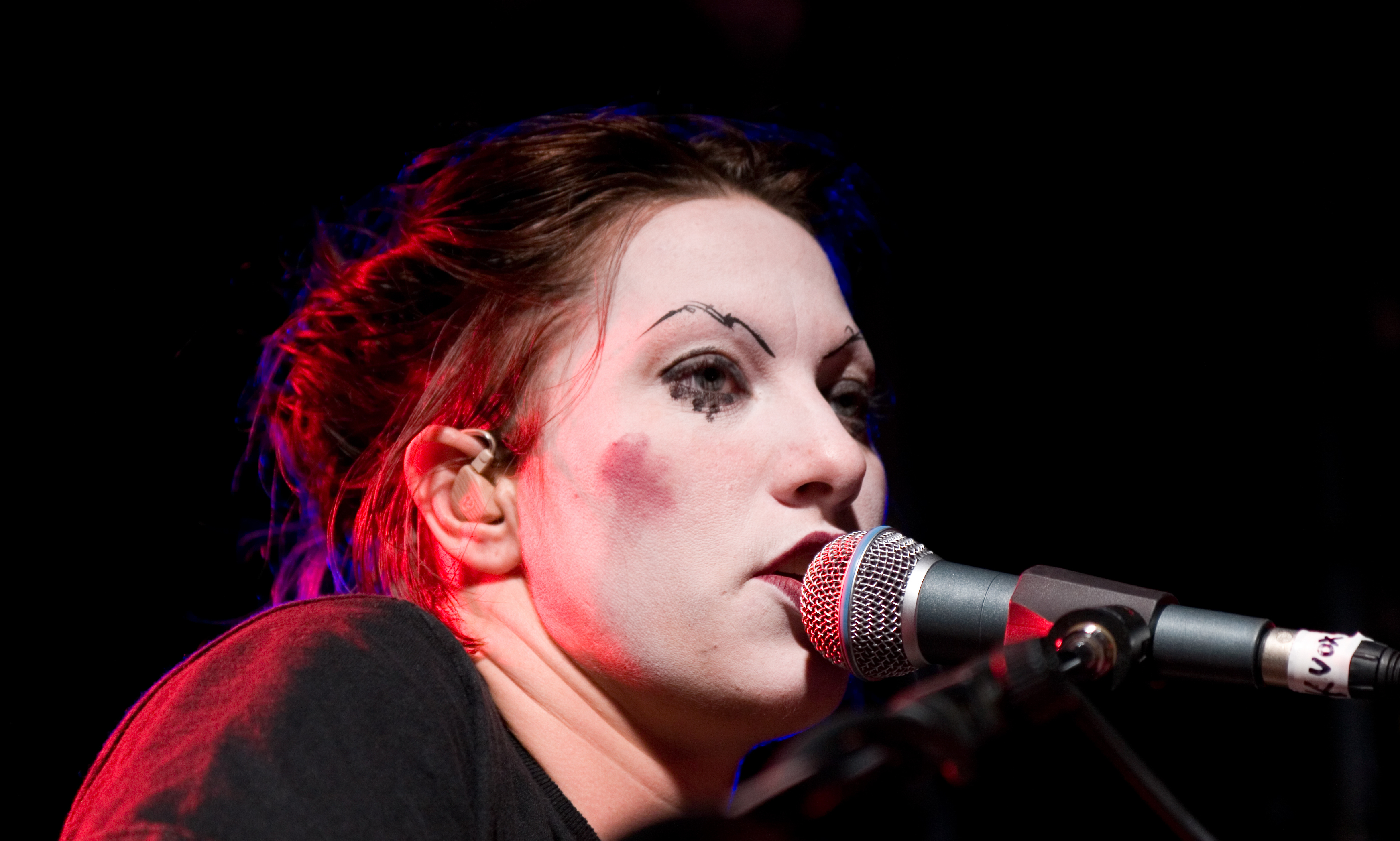 Amanda Palmer performing with The Dresden Dolls at Kings Arms Tavern in Auckland, New Zealand